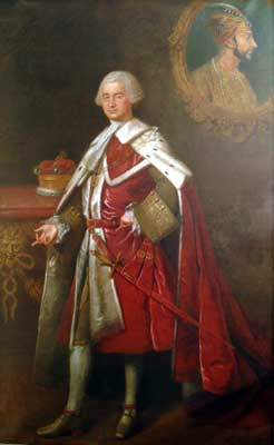 Robert Clive, 1st Baron Clive (1725-1774), with a portrait of Mughal emperor Shah Alam II in the background